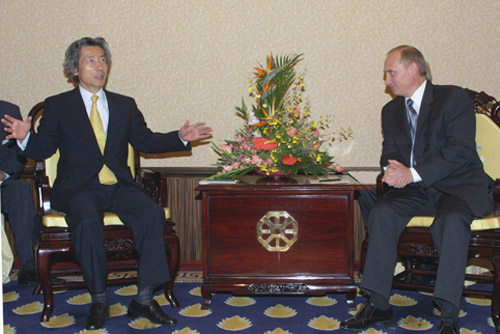 SHANGHAI. President Putin with Japanese Prime Minister Junichiro Koizumi.